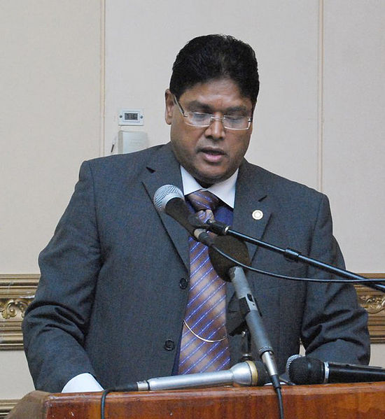 photo of Chan Santokhi